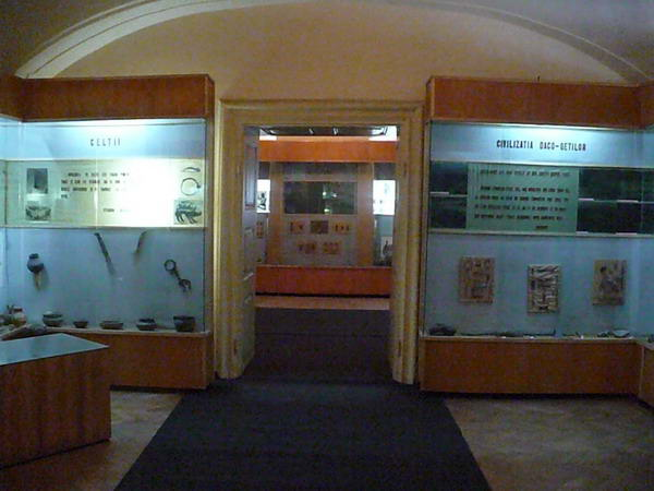 Exhibition hall from the History Museum Gherla